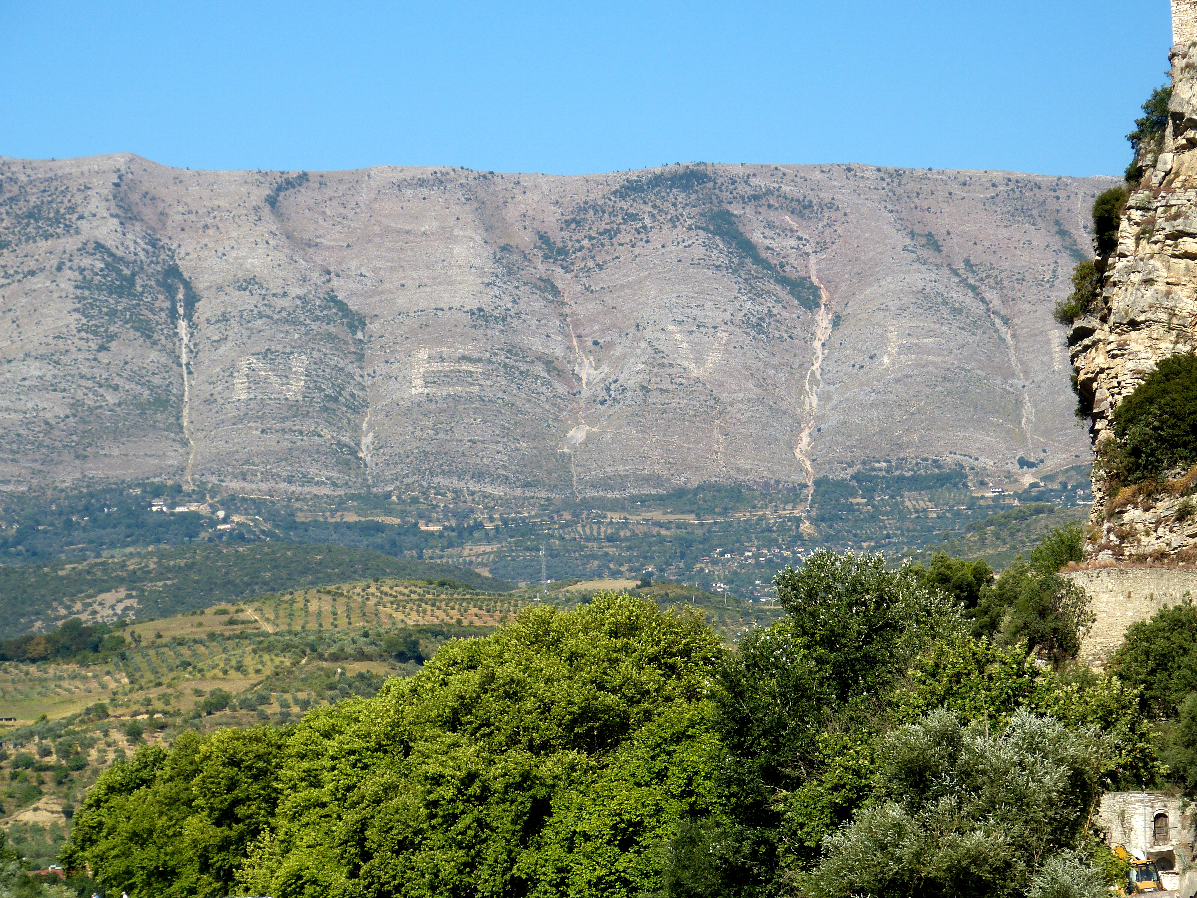 Berat (Albania). Name of Enver Hoxha ( ENVER ) changed into NEVER in 2012. On mountain Shpirag, facing Berat.